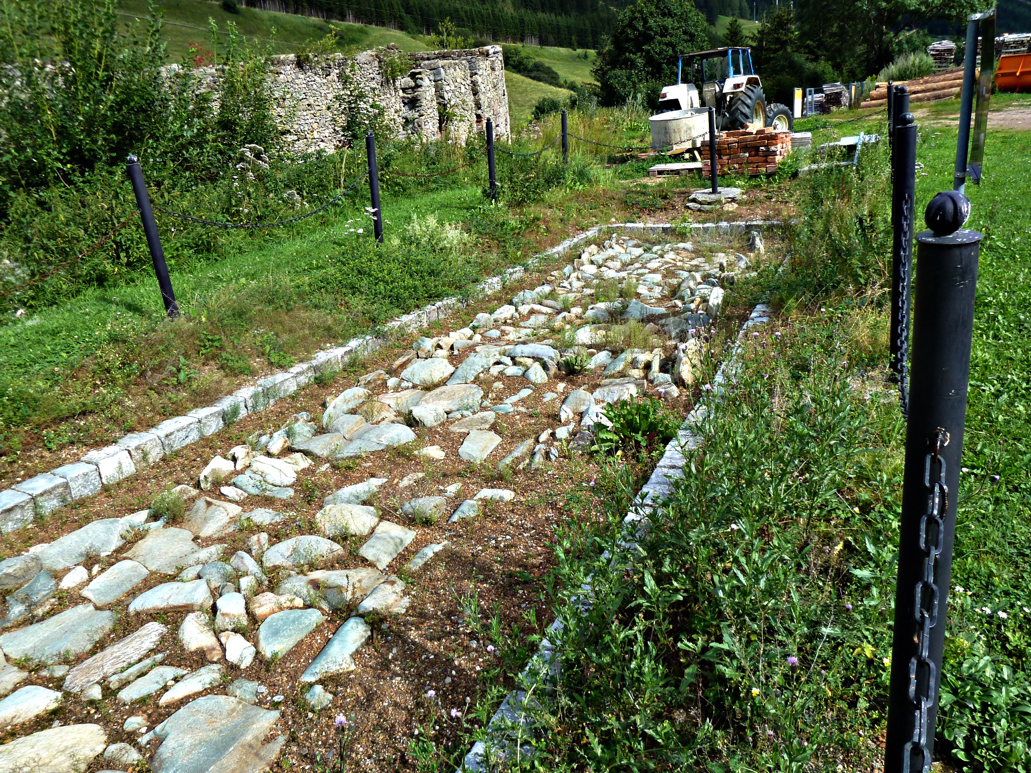 old country road